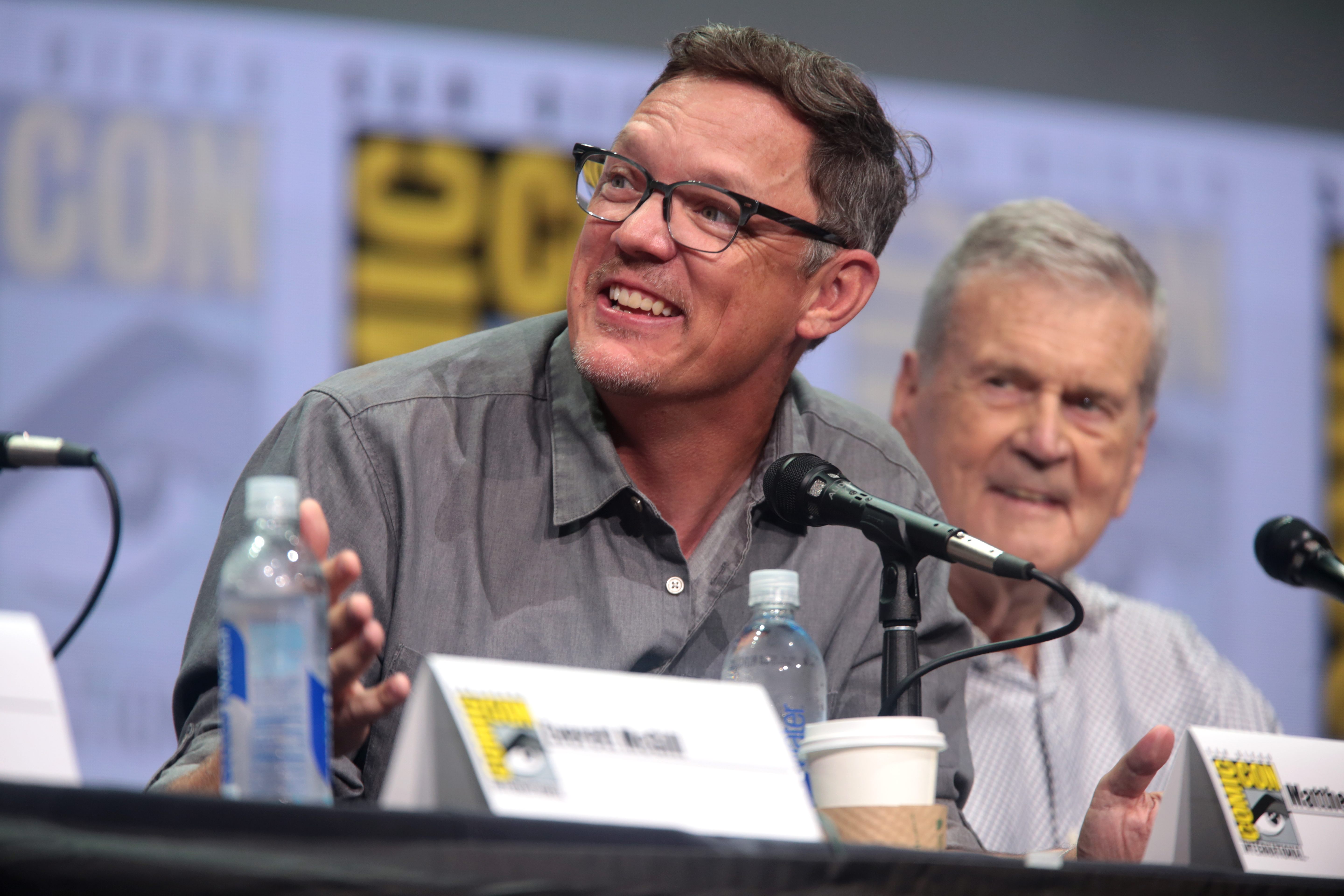 Matthew Lillard and Don Murray speaking at the 2017 San Diego Comic Con International, for "Twin Peaks", at the San Diego Convention Center in San Diego, California.